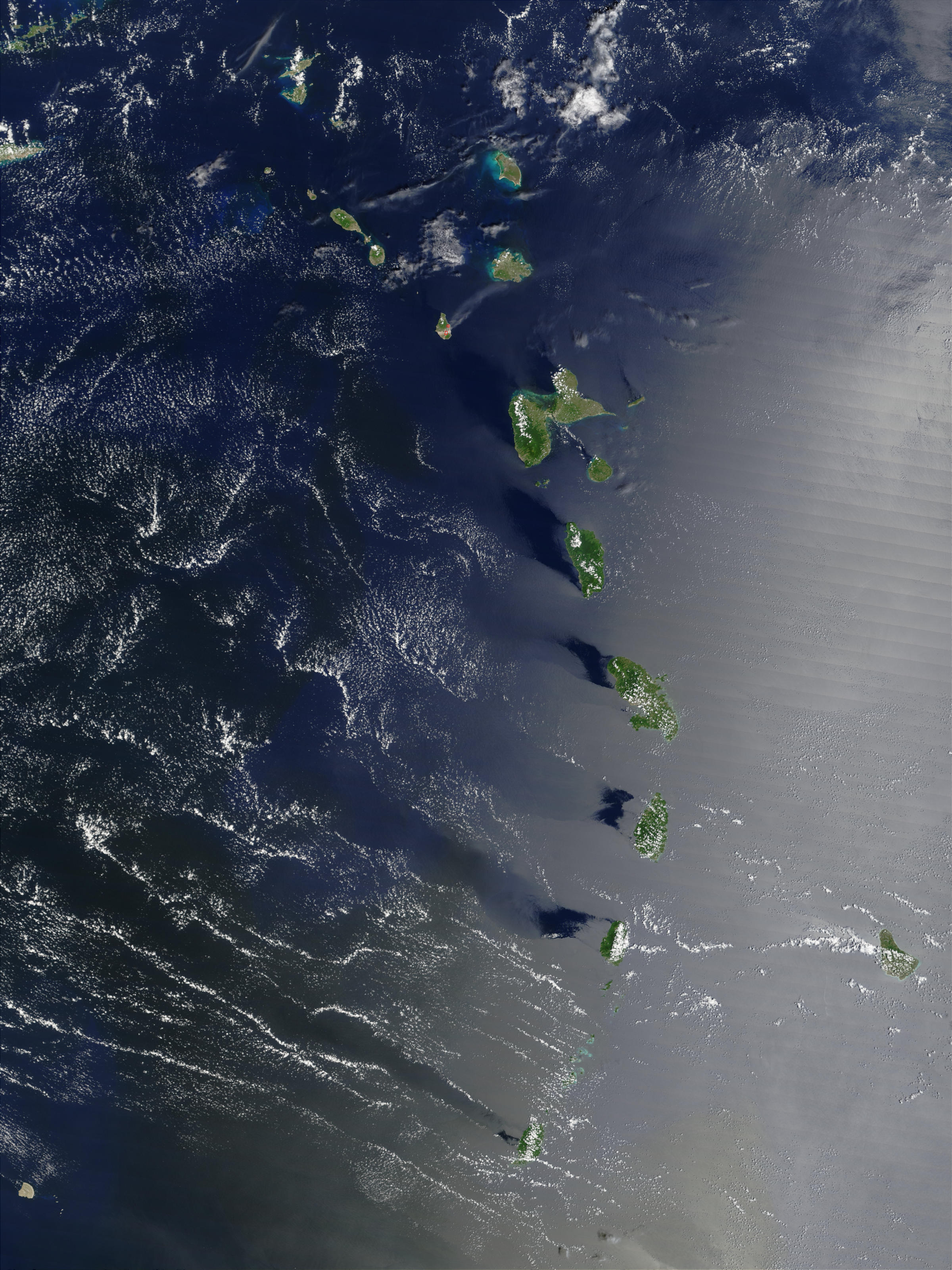 Original image caption: The Lesser Antilles island chain is centered in this true-color Moderate Resolution Imaging Spectroradiometer (MODIS) image from September 20, 2002. From bottom to top through the center are Grenada, St. Vincent (with Barbados to its east), St. Lucia, Fort-de-France, Dominica, Guadeloupe, Montserrat (slightly west of center line), Antigua, and Barbuda. The Lesser Antilles are part of a chain of islands that runs between the tip of Florida and northern South America in the Caribbean Sea. On Montserrat, the thermal signature (marked in red) could be from the Soufriere Hills Volcano.